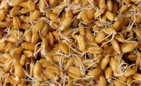 Growing sprouts using a wide mouth mason jar at home